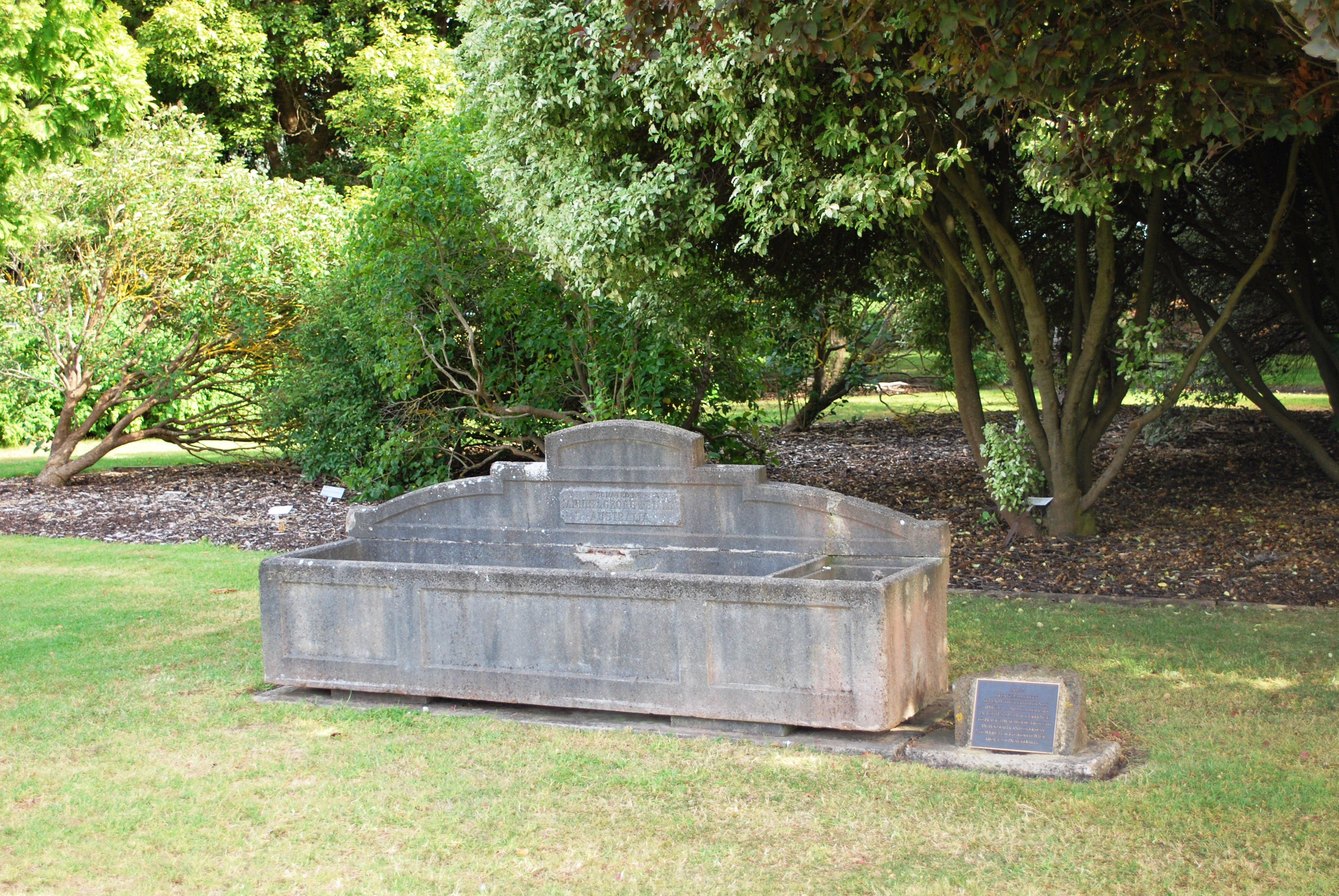 Bills horse trough at Portland, Victoria